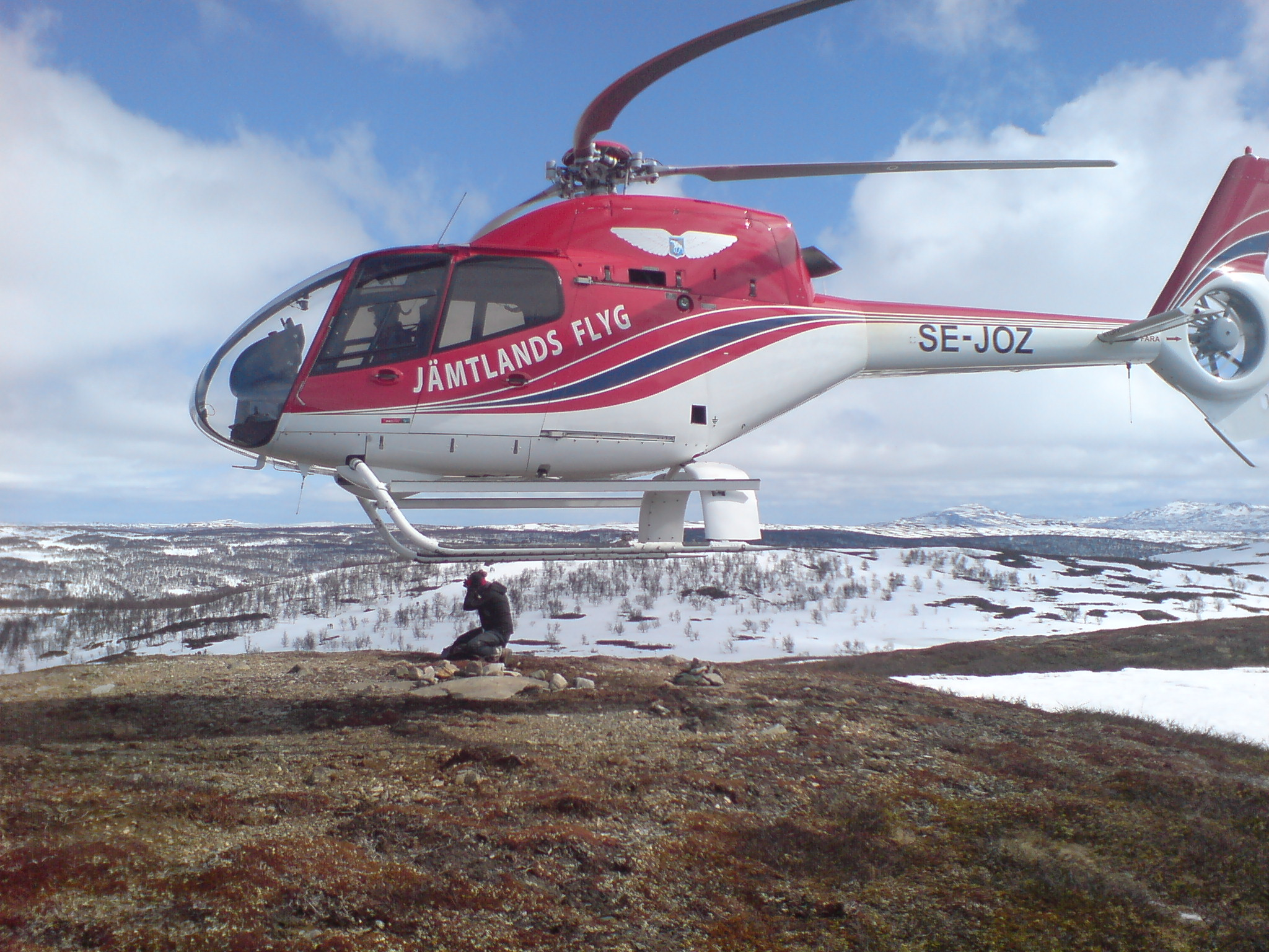 Eurocopter EC120 B Colibri (SE-JOZ) helicopter from Jämtlands Flyg AB operating out of Östersund, Jämtland, Sweden. Take-off from a mountain top in Ramundberget, Härjedalen, Sweden during the annual Afterski1000 at 1000 m above sea level.